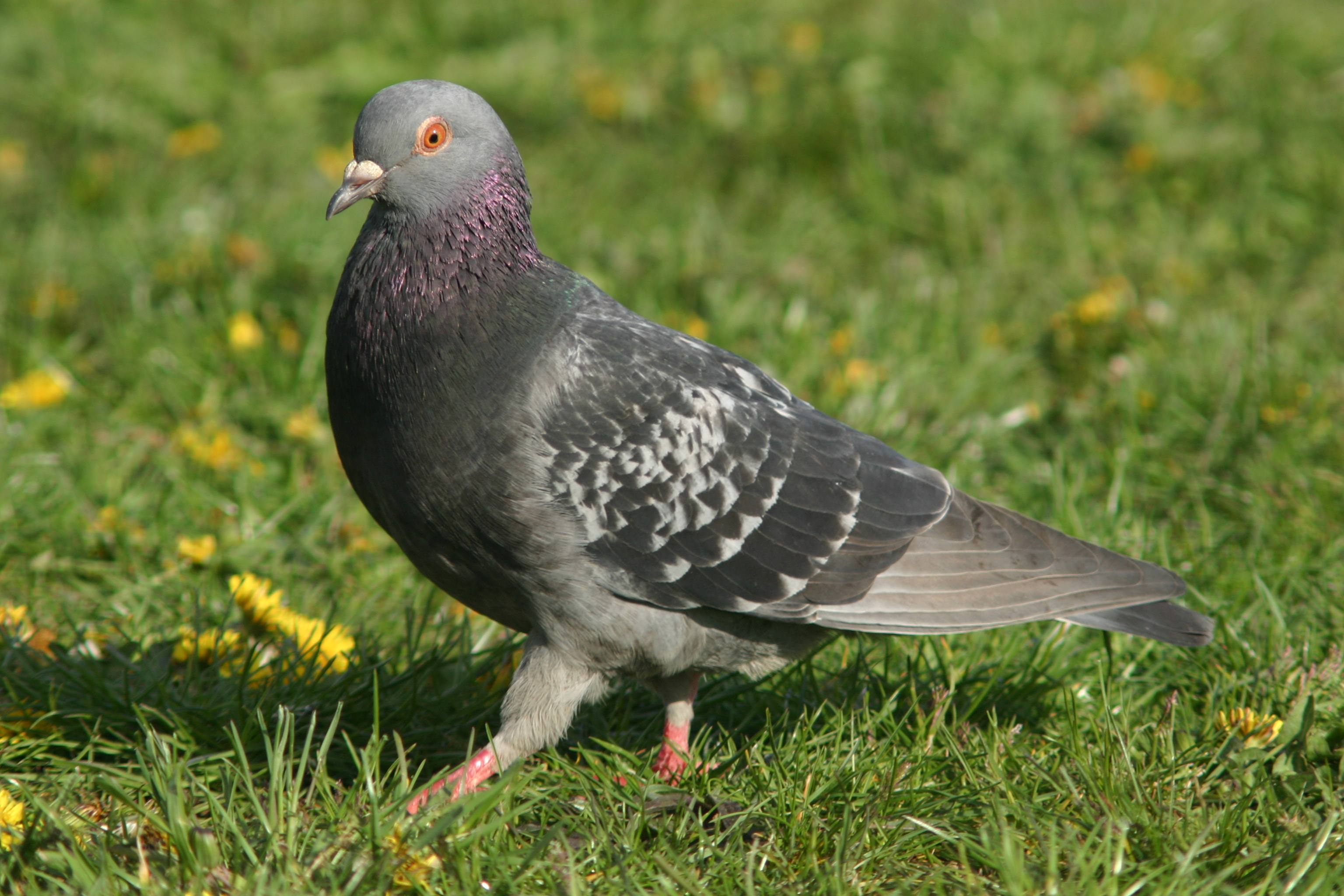 Pigeon, taken near the shoreline near New Haven, Connecticut, just off exit 46 on I-95. Taken with a Canon Digital Rebel, a Canon 135/2.8 Softfocus lens and a Phoenix 4-element 2x AF teleconverter. ISO 200, 1/400s, f/9 (effective).